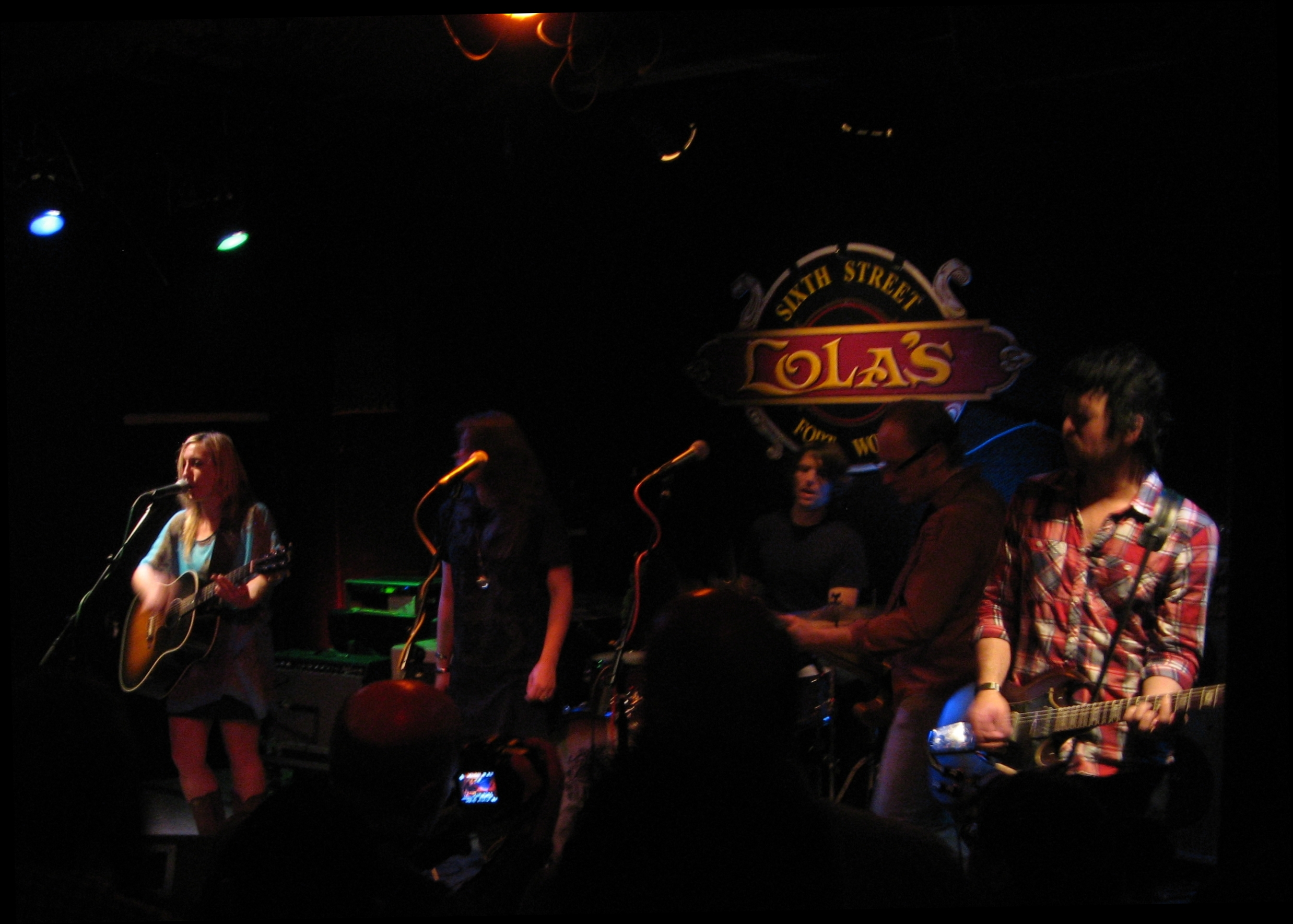 The Heartless Bastards performing live in Fort Worth, Texas in March 2012 in support of their recently-released album "Arrow".